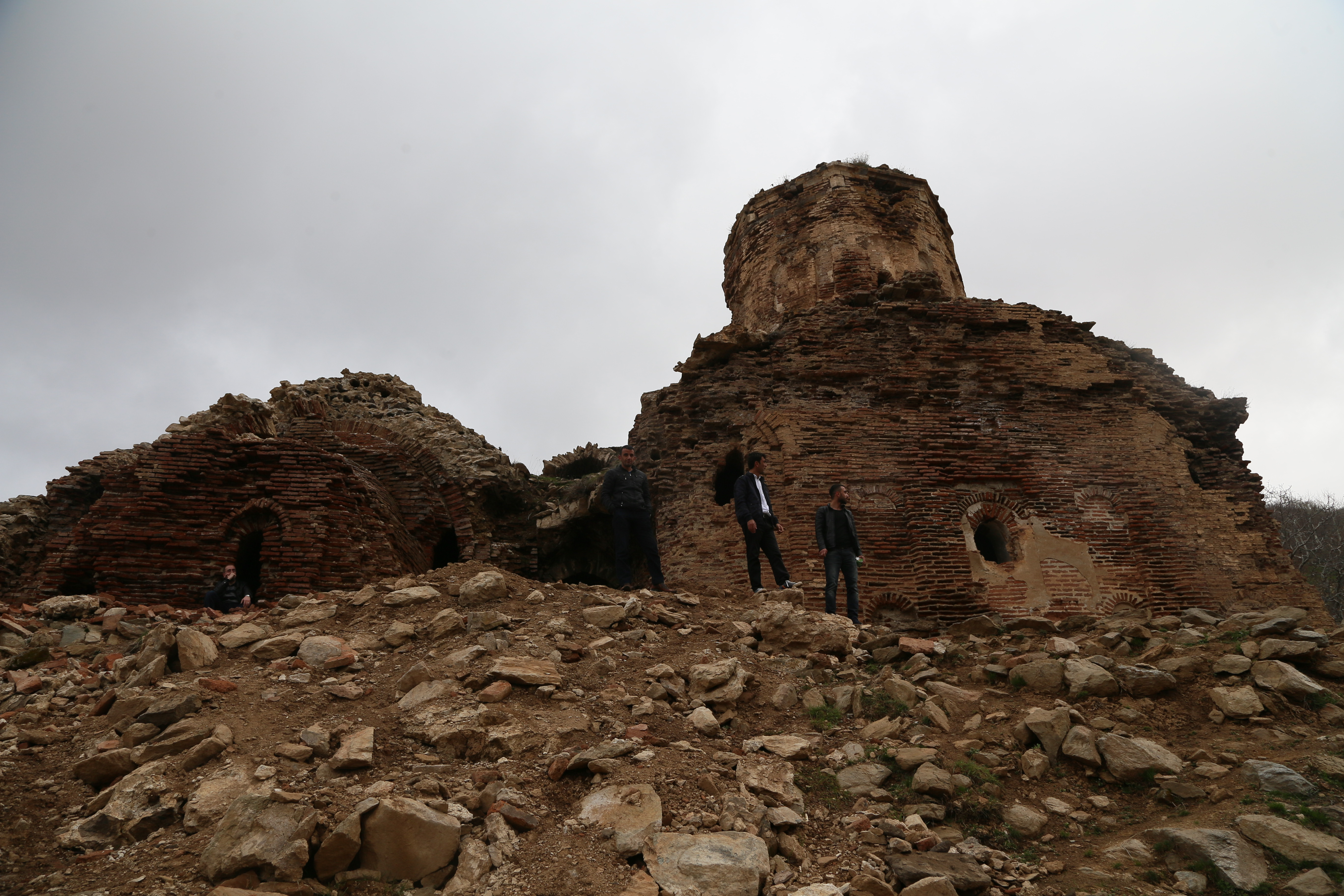 A visit to the ruins of Aghperig Monastery in Eastern Anatolia to mark the 100th anniversary of the Armenian Genocide.